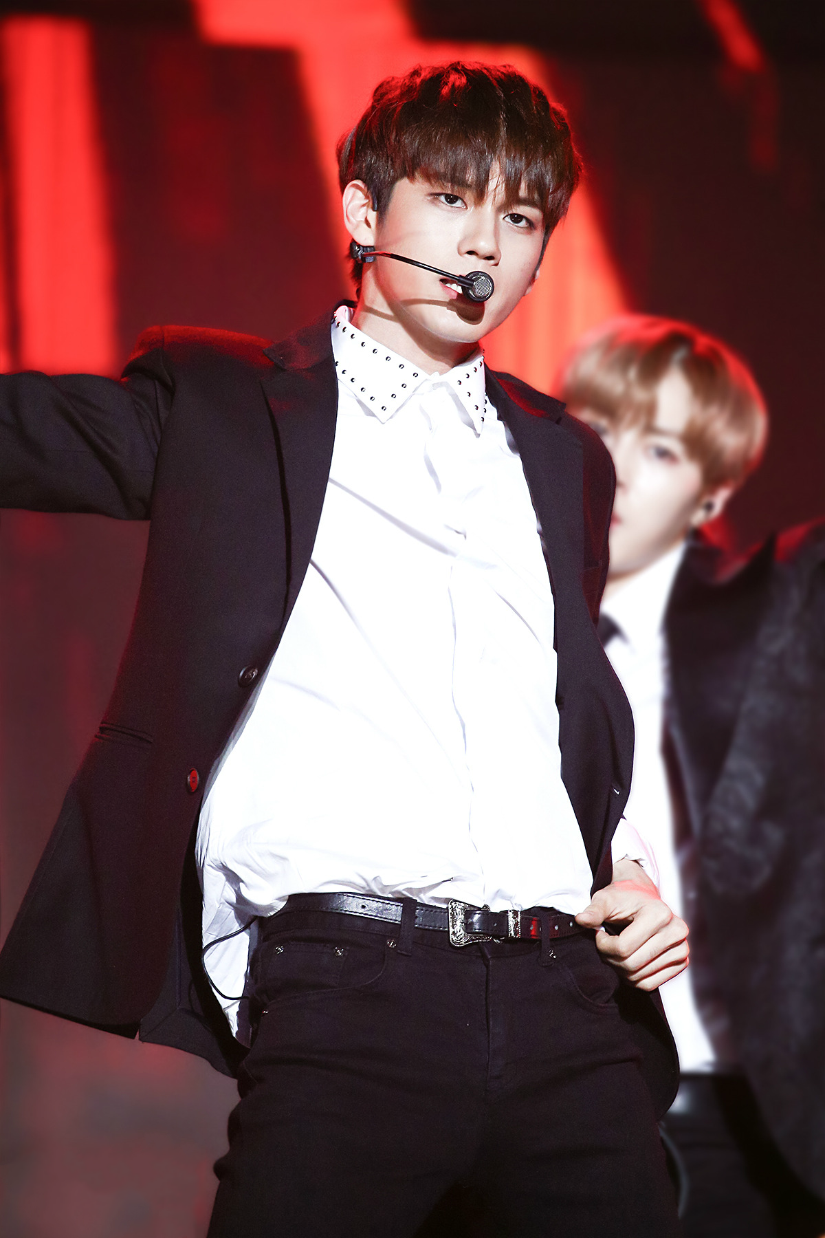 Ong Seong Wu at Soribada Best K-Music Awards (170920)